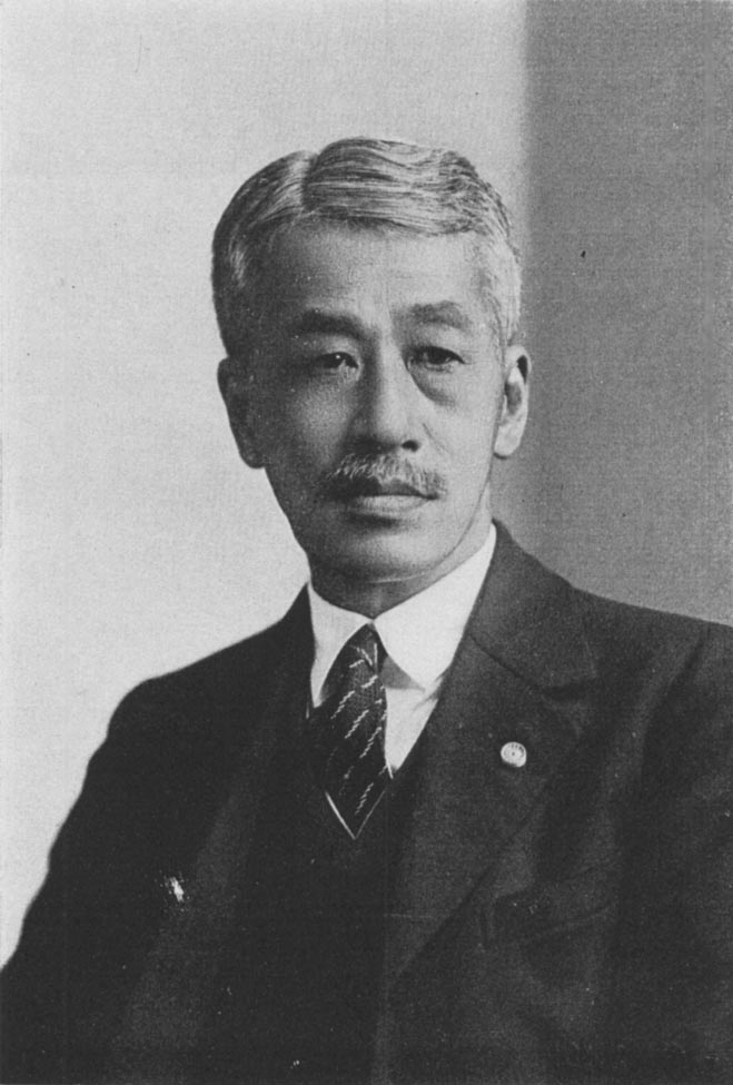 Sakuki Haruyama.